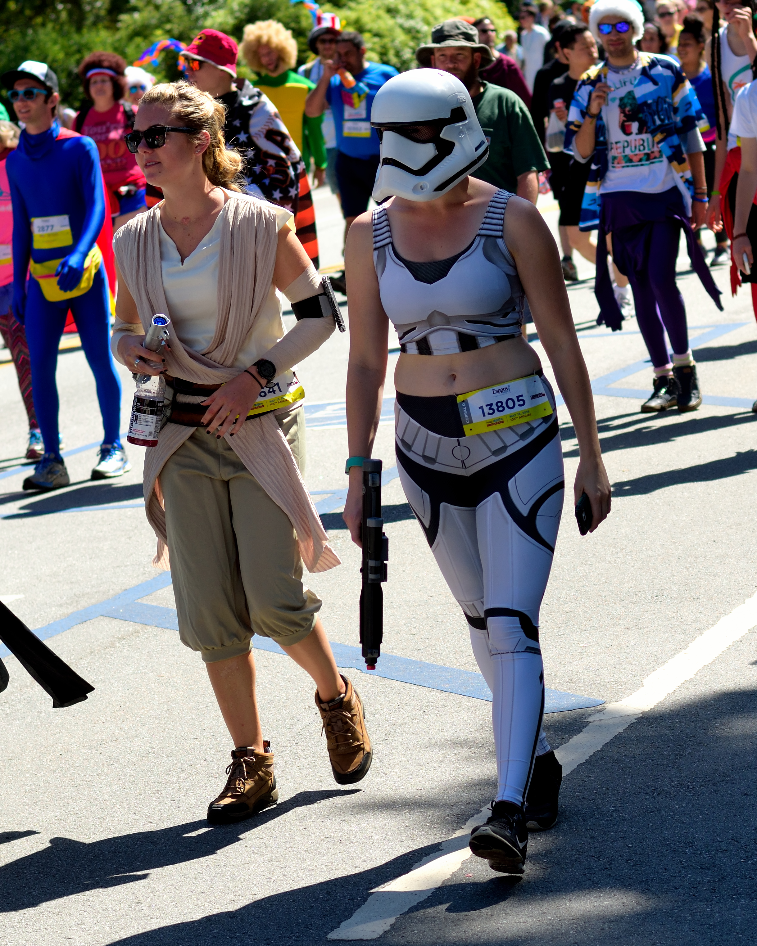 Costumed participants in Bay to Breakers 2016